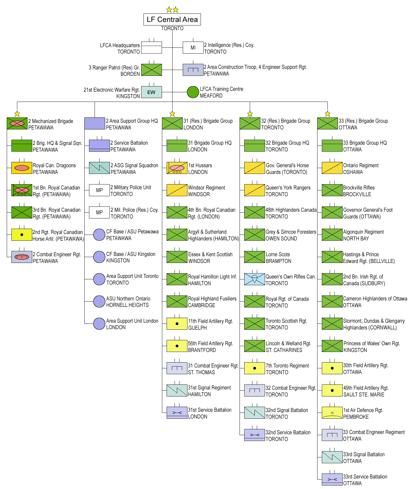 Canadian Land Forces Central Area